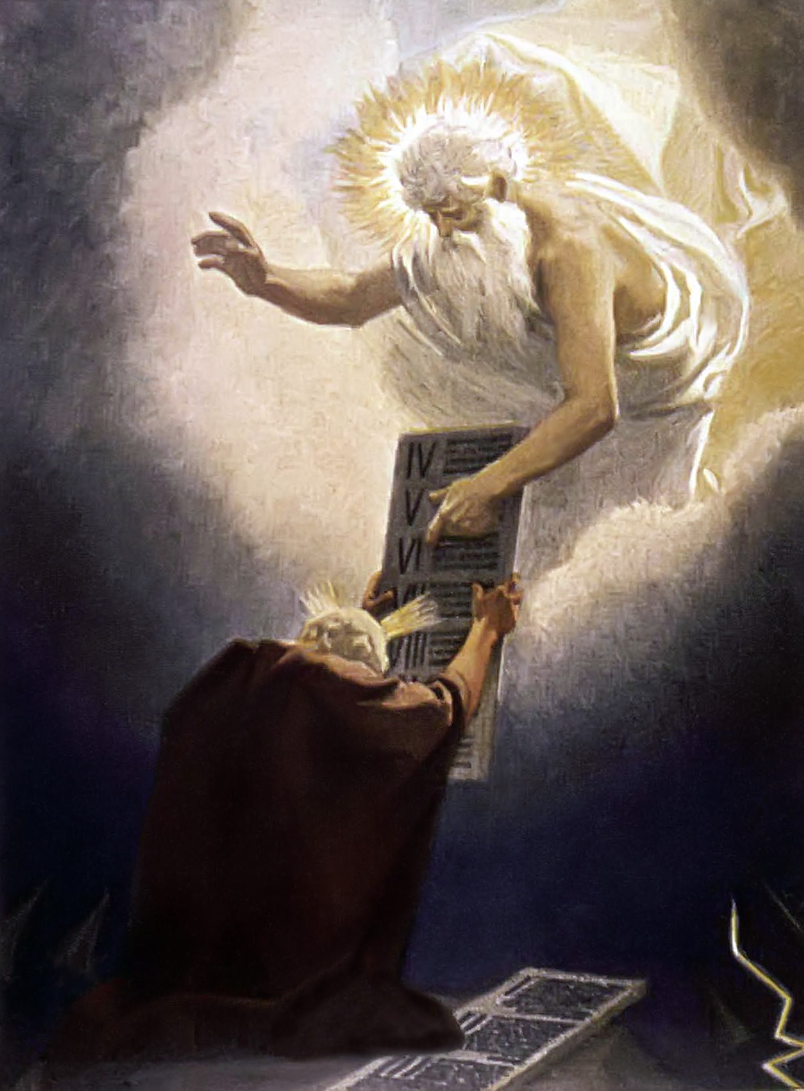 Gebhard Fugel: Moses receiving the tablets, c. 1900